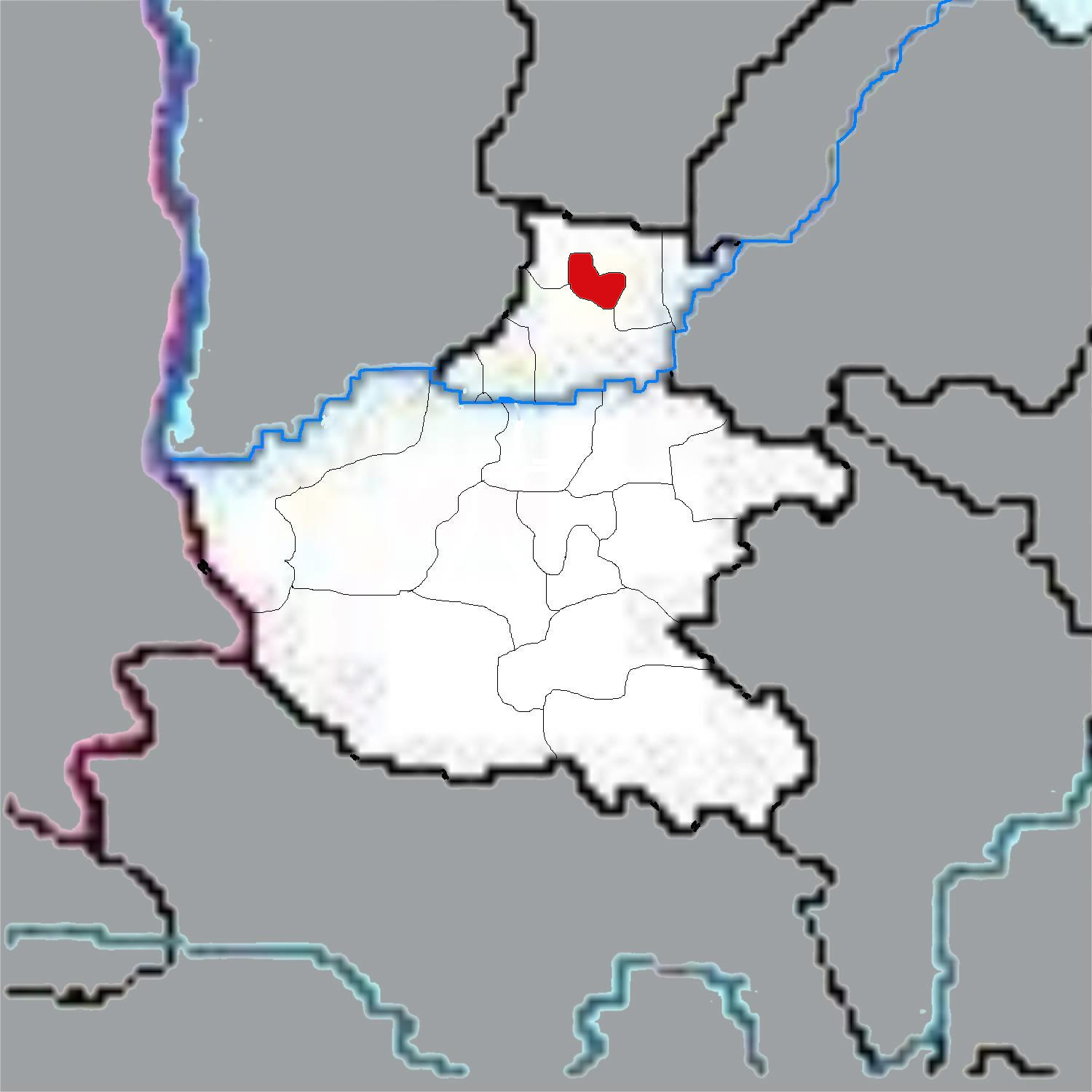 Maps of Henan Province of China